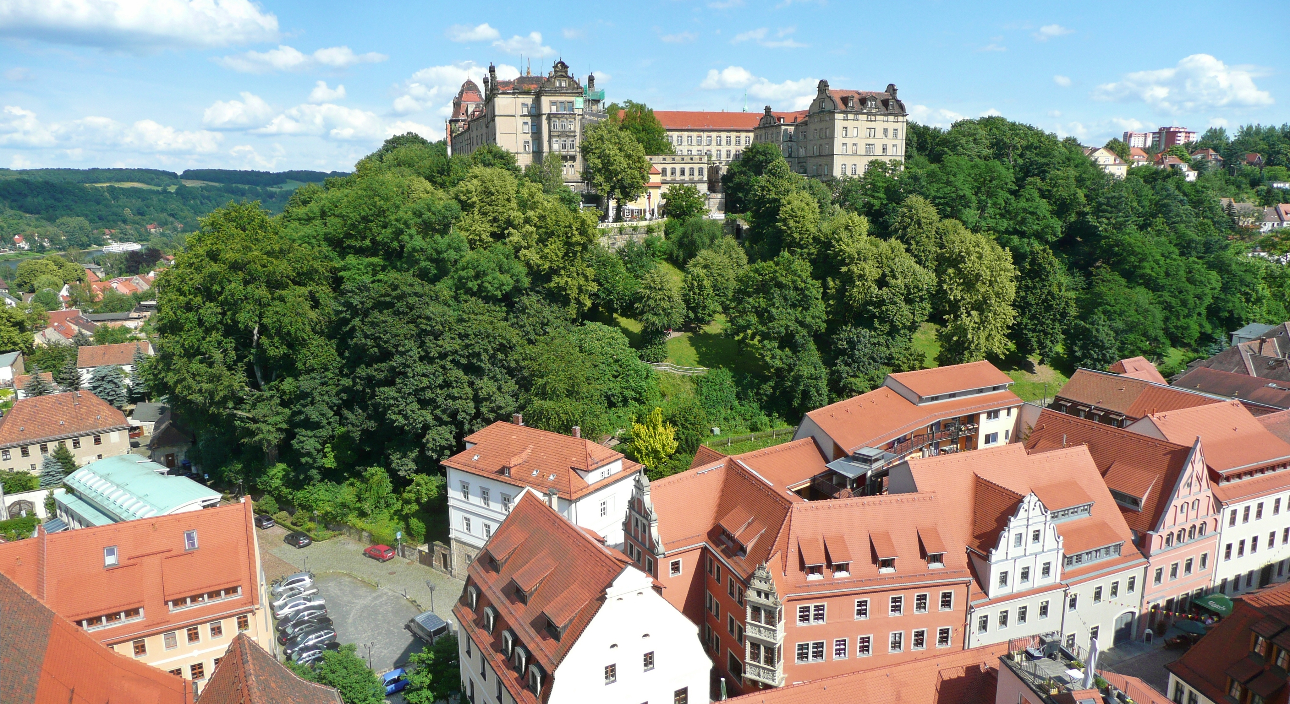 This image shows Schloss Sonnenstein (Sonnenstein castle) in Pirna.